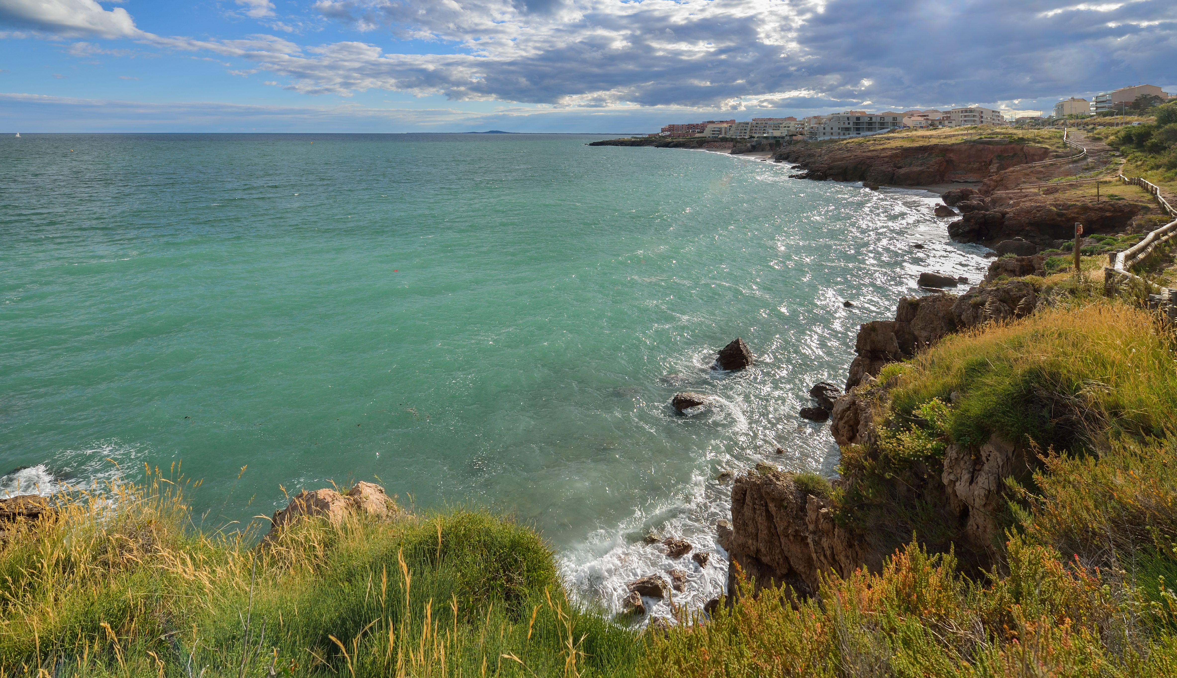 Crique de l'Anau, a cove at the neighbourhood of La Corniche, seen from the east and the Mediterranean Sea. Sète, Hérault, France.